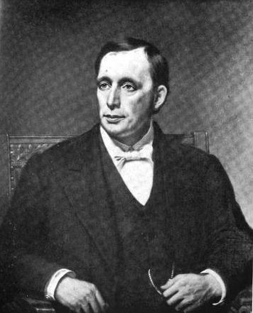 Charles B. Andrews (Connecticut Governor)